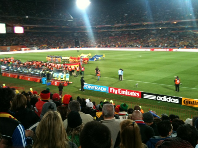 Teams during the quaterfinal between Paraguay and Spain at FIFA World Cup 2010, 3 July 2010, Ellis Park Stadium, Johannesburg